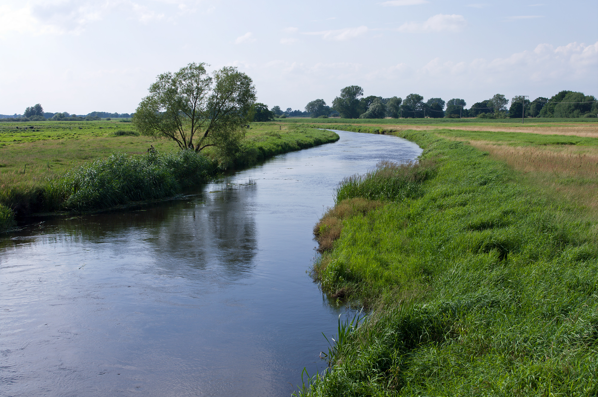 Small river "Sude" near the village Preten (Amt Neuhaus, district Lüneburg, northern Germany).